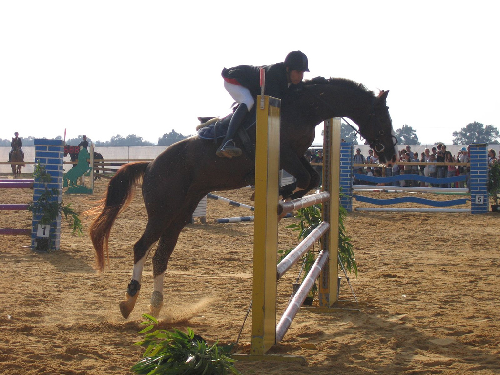 Style fault: poor foreleg technique.